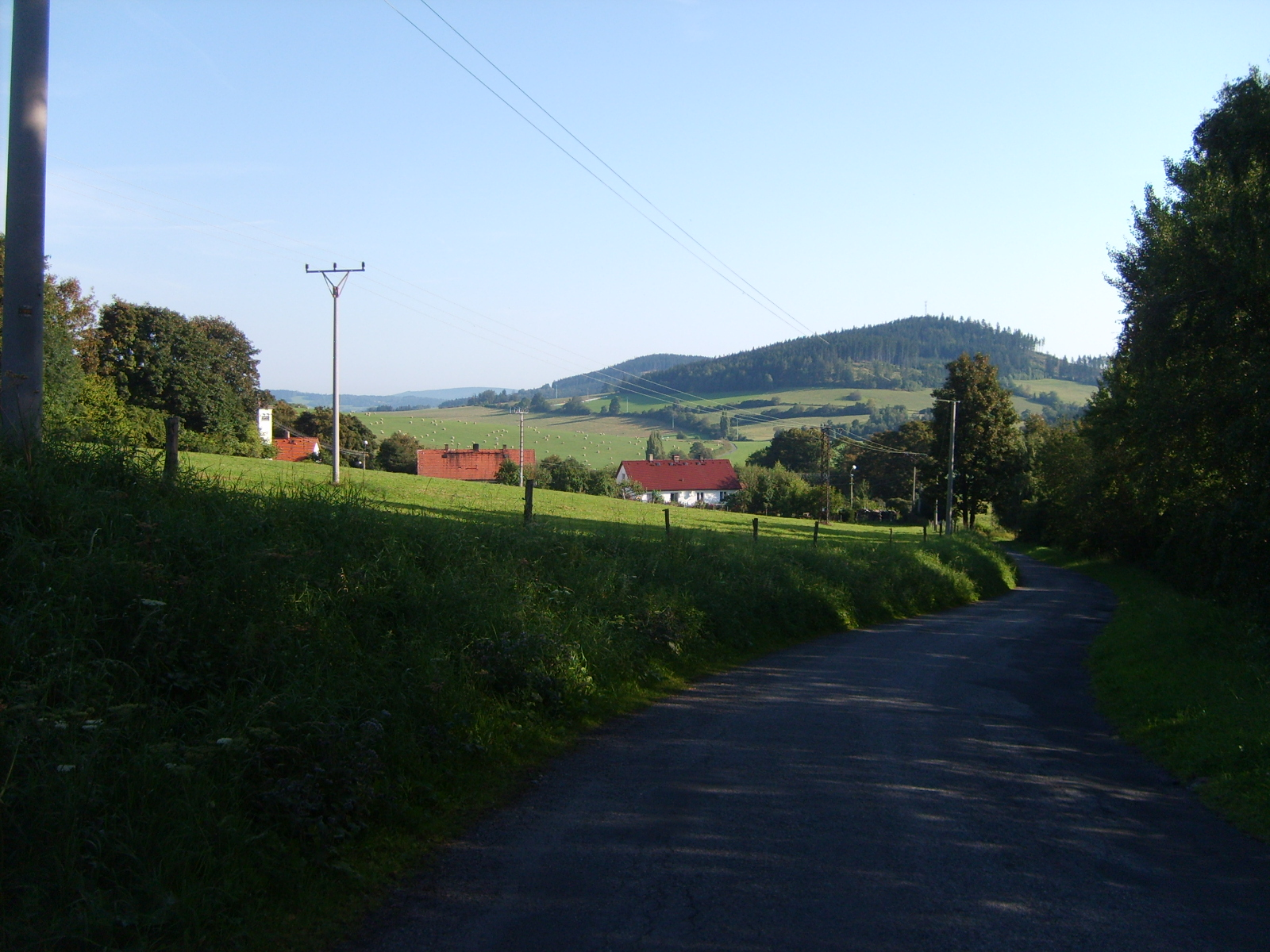 Hořejší Krušec settlement, Hartmanice municipality